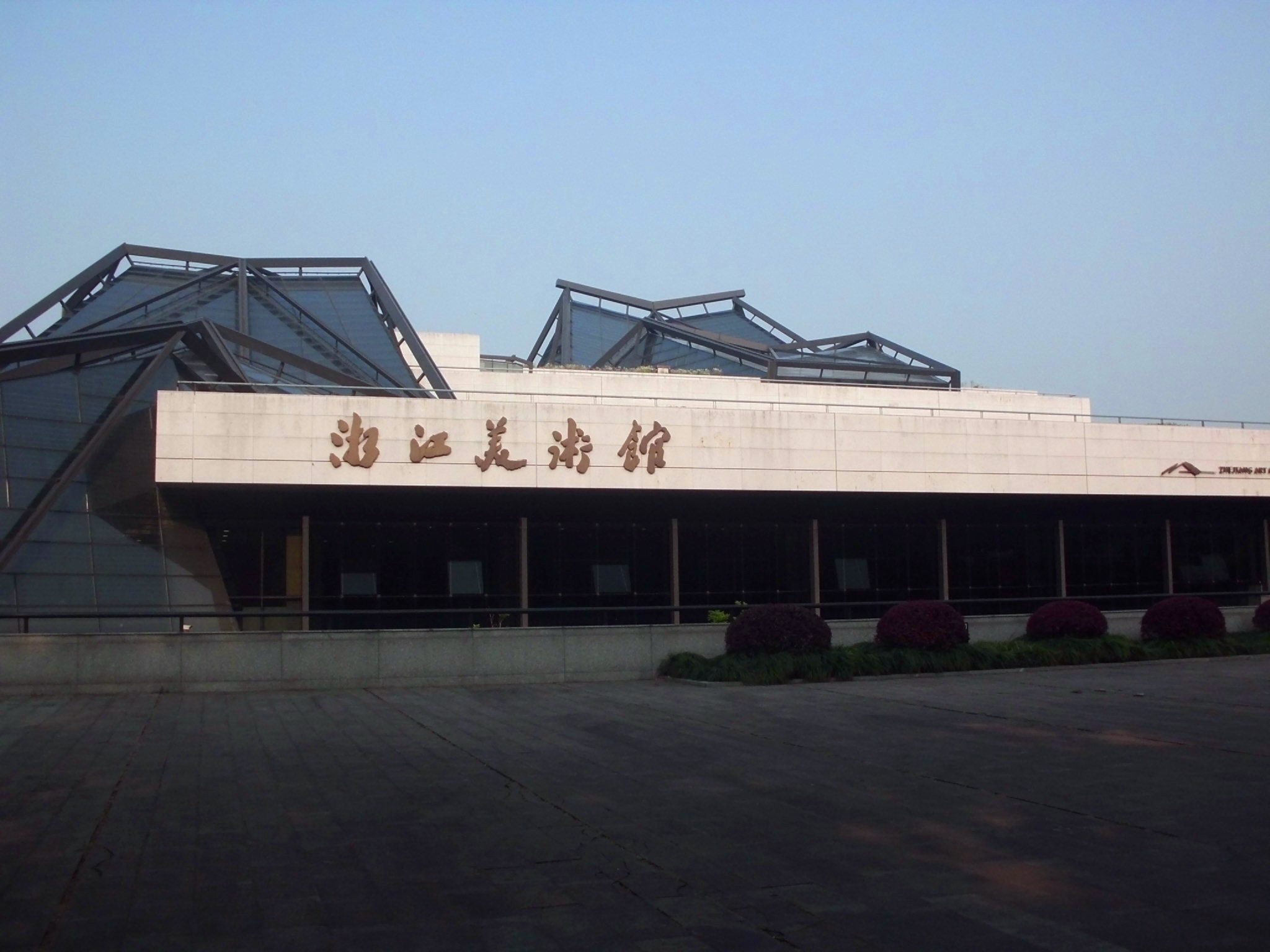 Zhejiang Art Museum